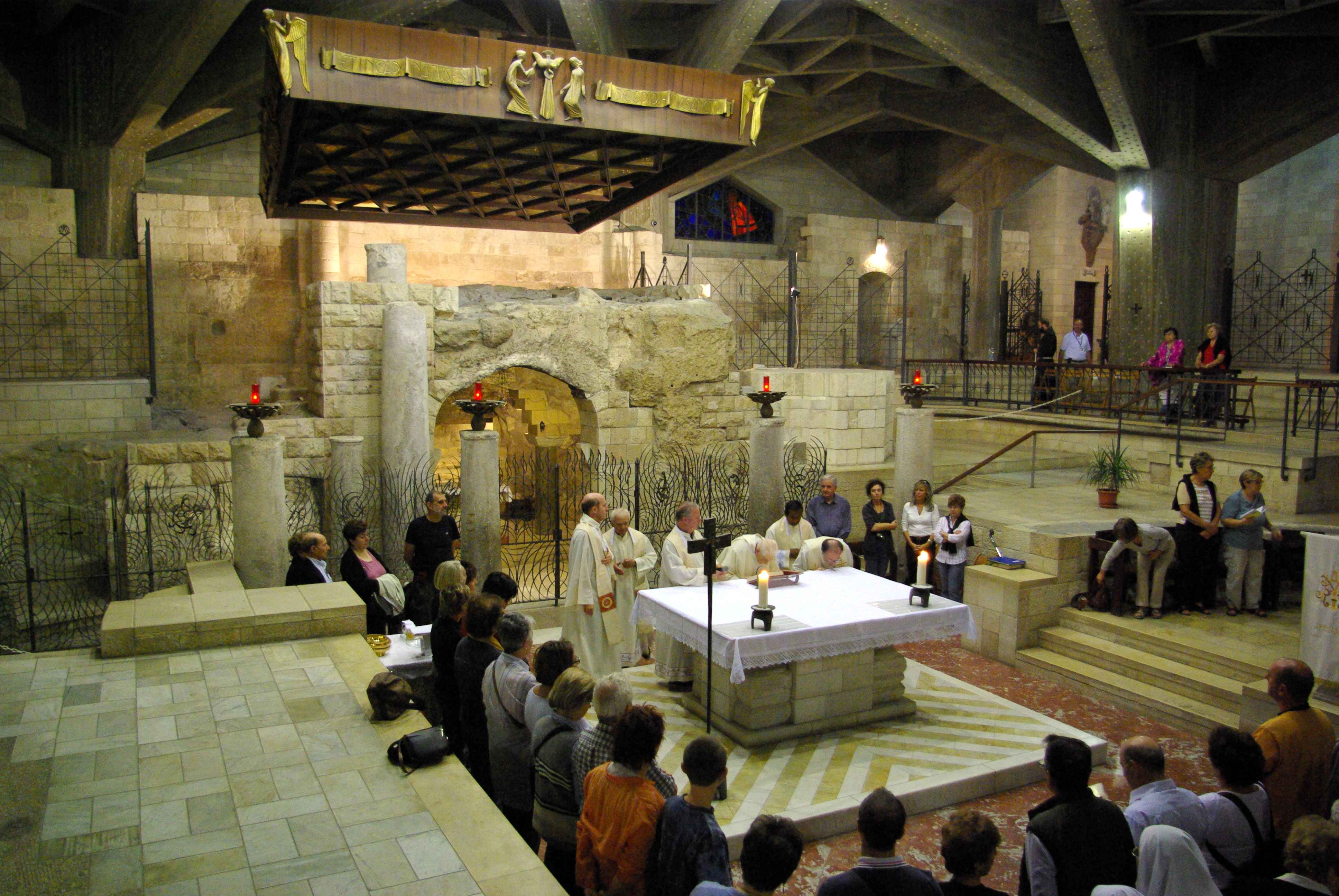 Church of the Annunciation, Nazareth, Israel